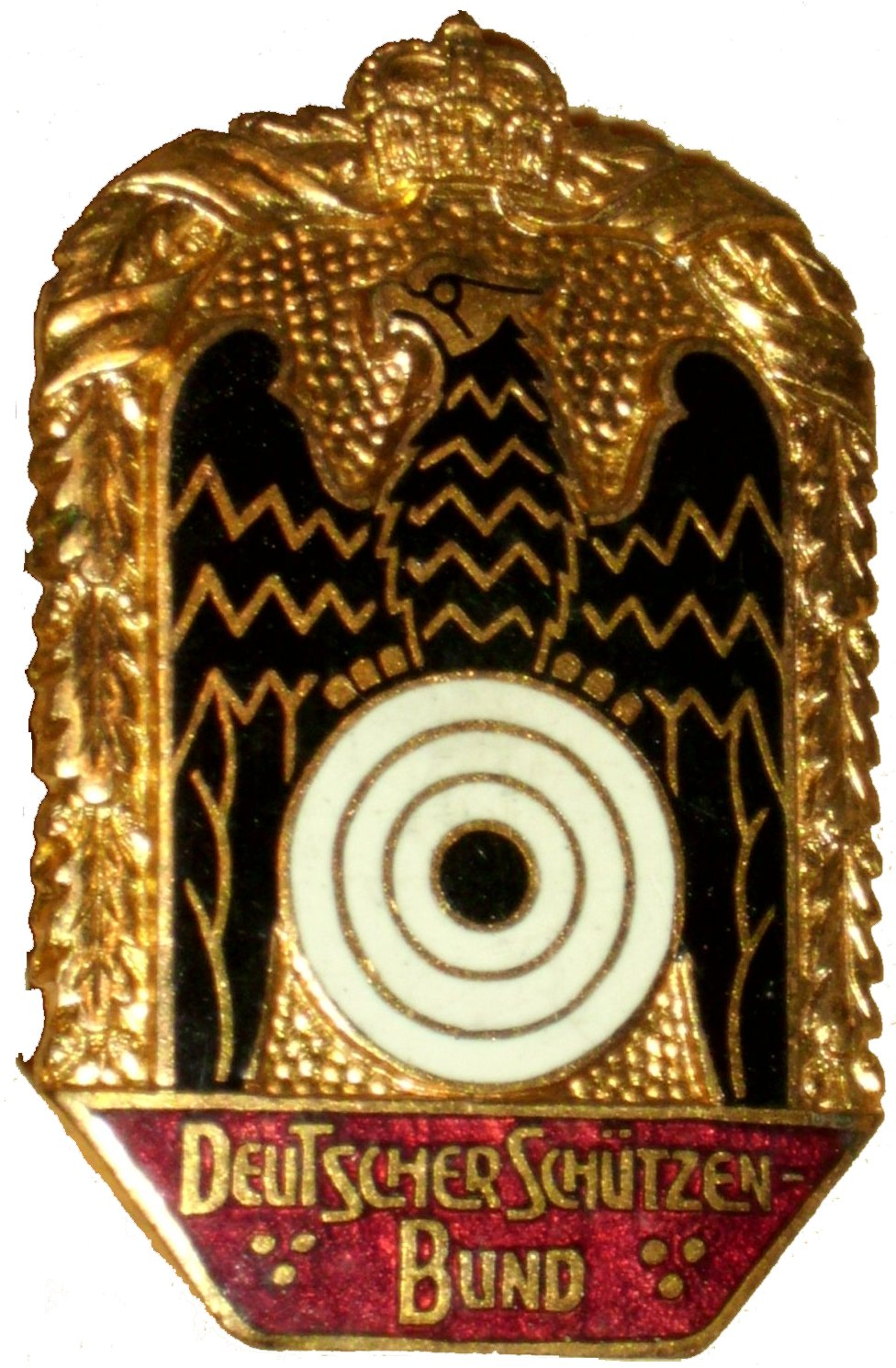 Button of Deutscher Schützenbund e.V., Germany